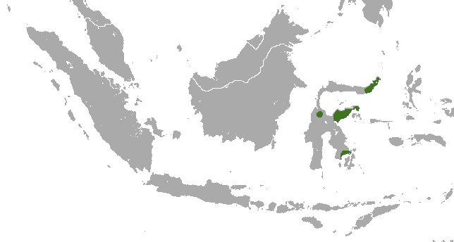 Sulawesi Palm Civet (Macrogalidia musschenbroekii) range